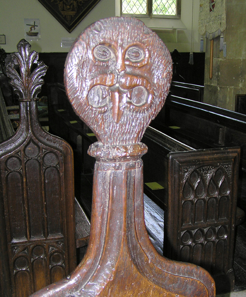 bench ends in the Parish Church of St. Mary the Virgin, Gillingham, Dorset